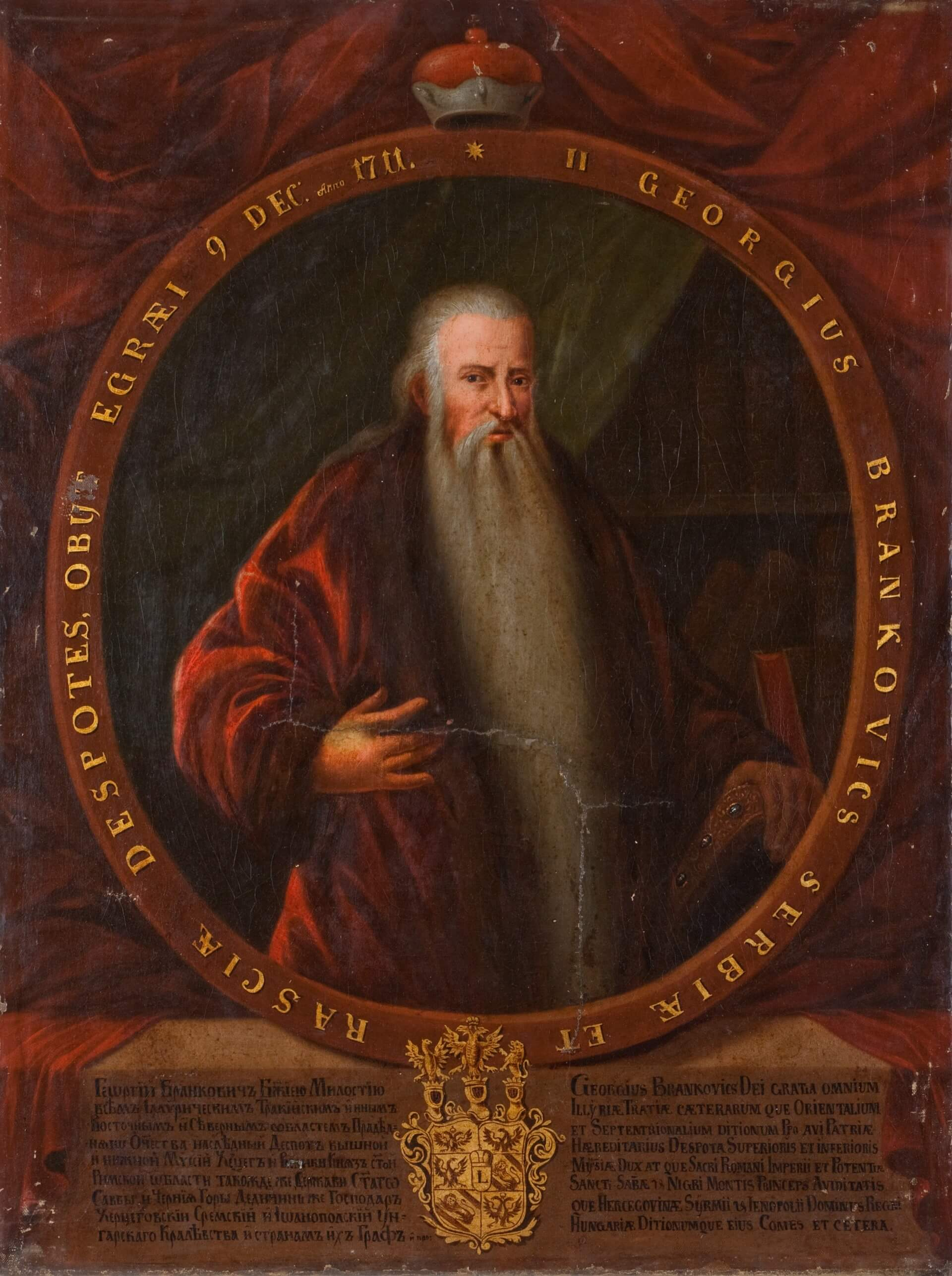 Unknown painter, Portrait of Count Djordje Branković probably before 1730, Museum of the Serbian Orthodox Church, Belgrade[1] ↑ Zbornik Narodnog muzeja - XVIII-2 Istorija umetnosti, 2007.[1], Belgrade: Narodni Muzej, (Please provide a date or year), page 200